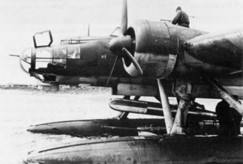 A torpedo is loaded on a German Heinkel He 115 seaplane.